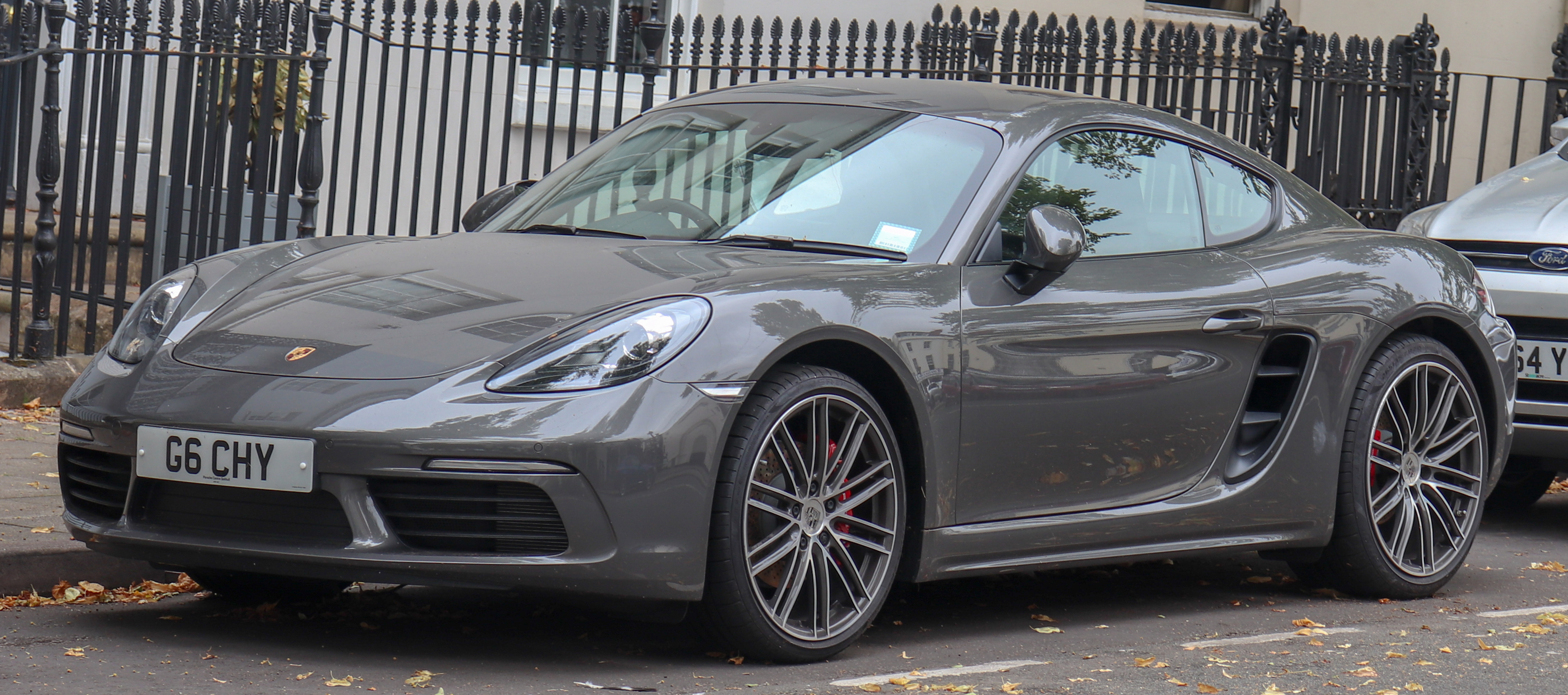 2018 Porsche 718 Cayman S S-A 2.5 Front